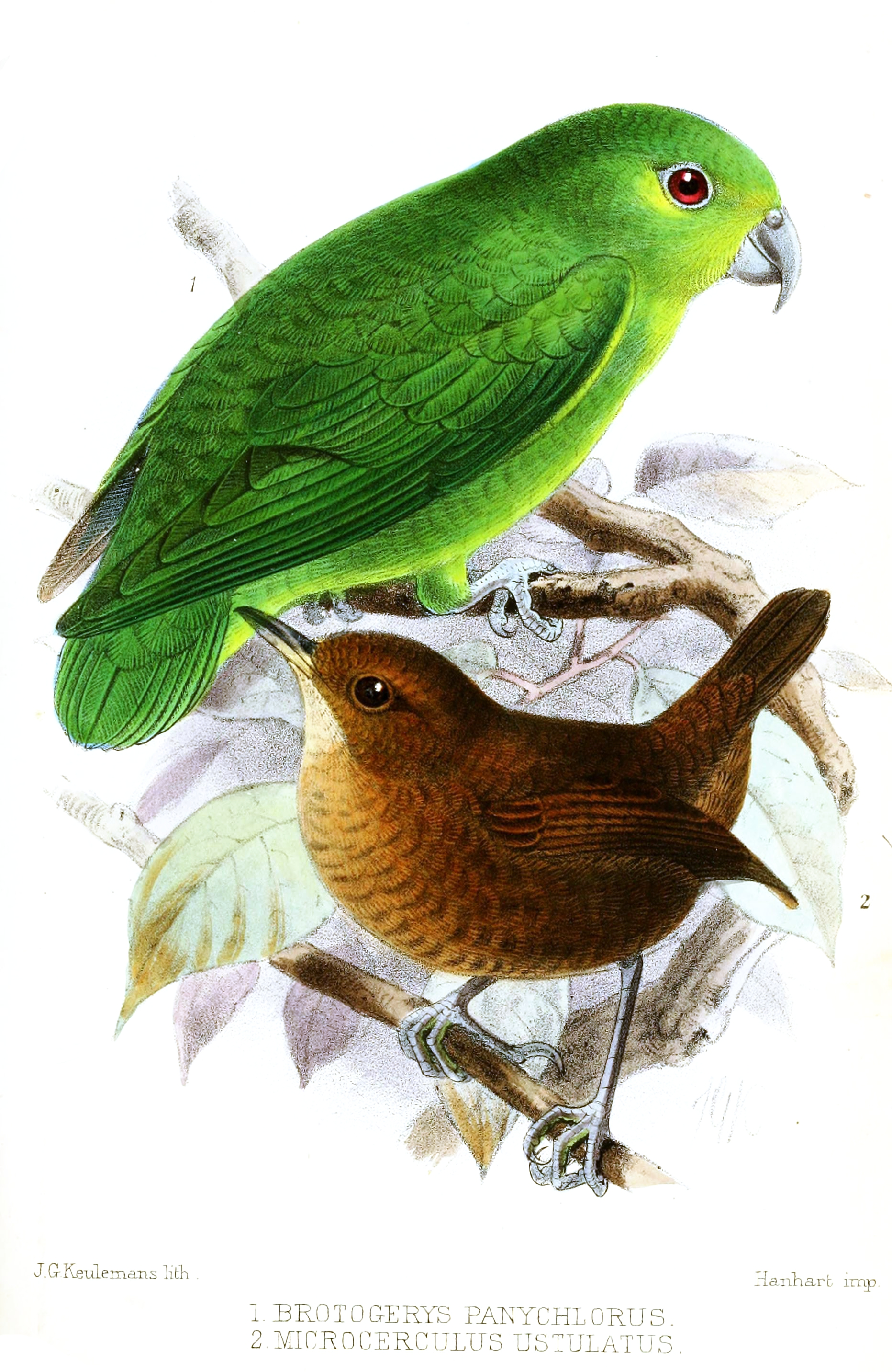 Brotogerys panychlorus =Nannopsittaca panychlora (color green) & Microcerculus ustulatus (color brown)